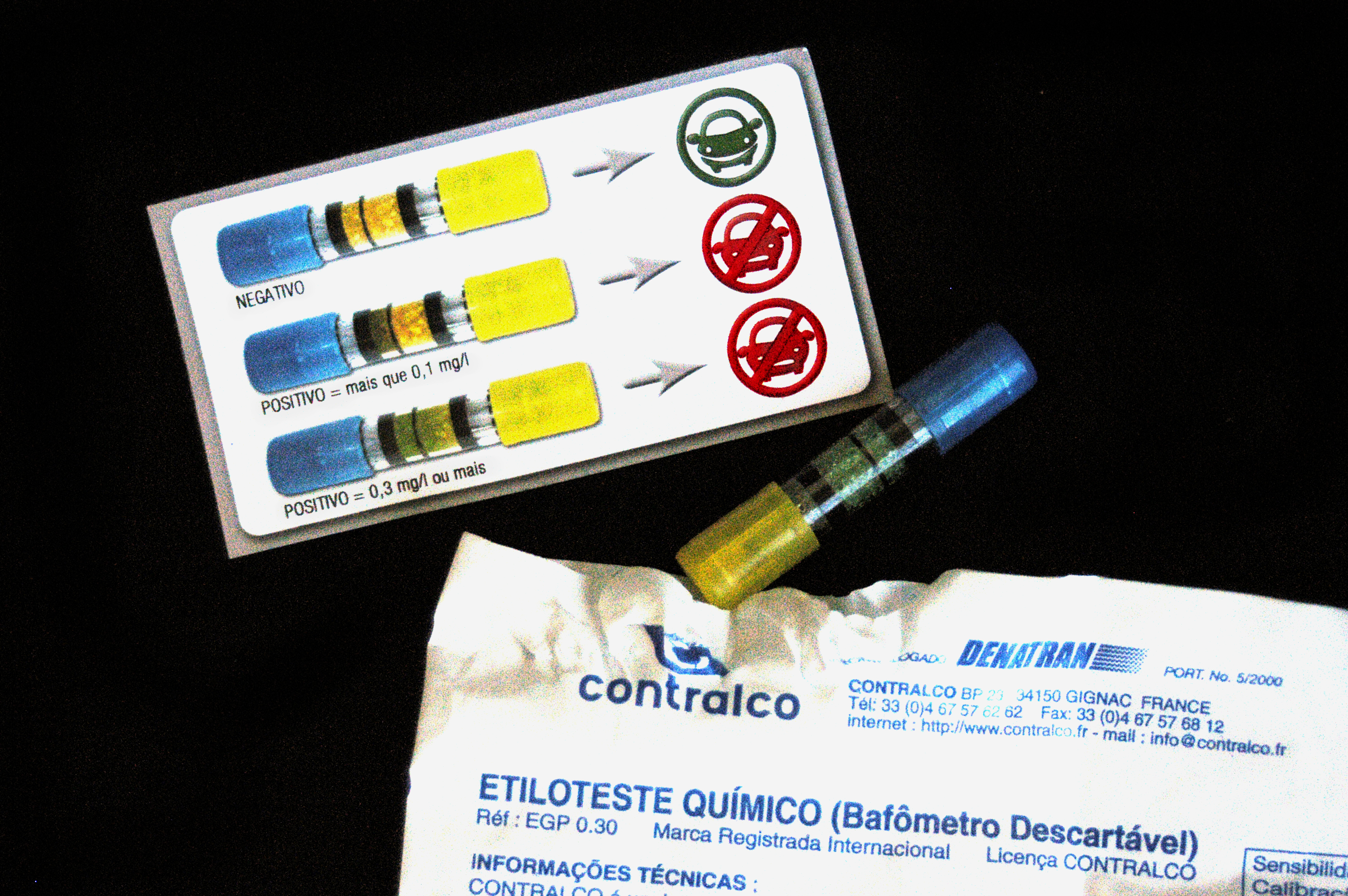 Breathalyzer (éthylotest a usage unique)